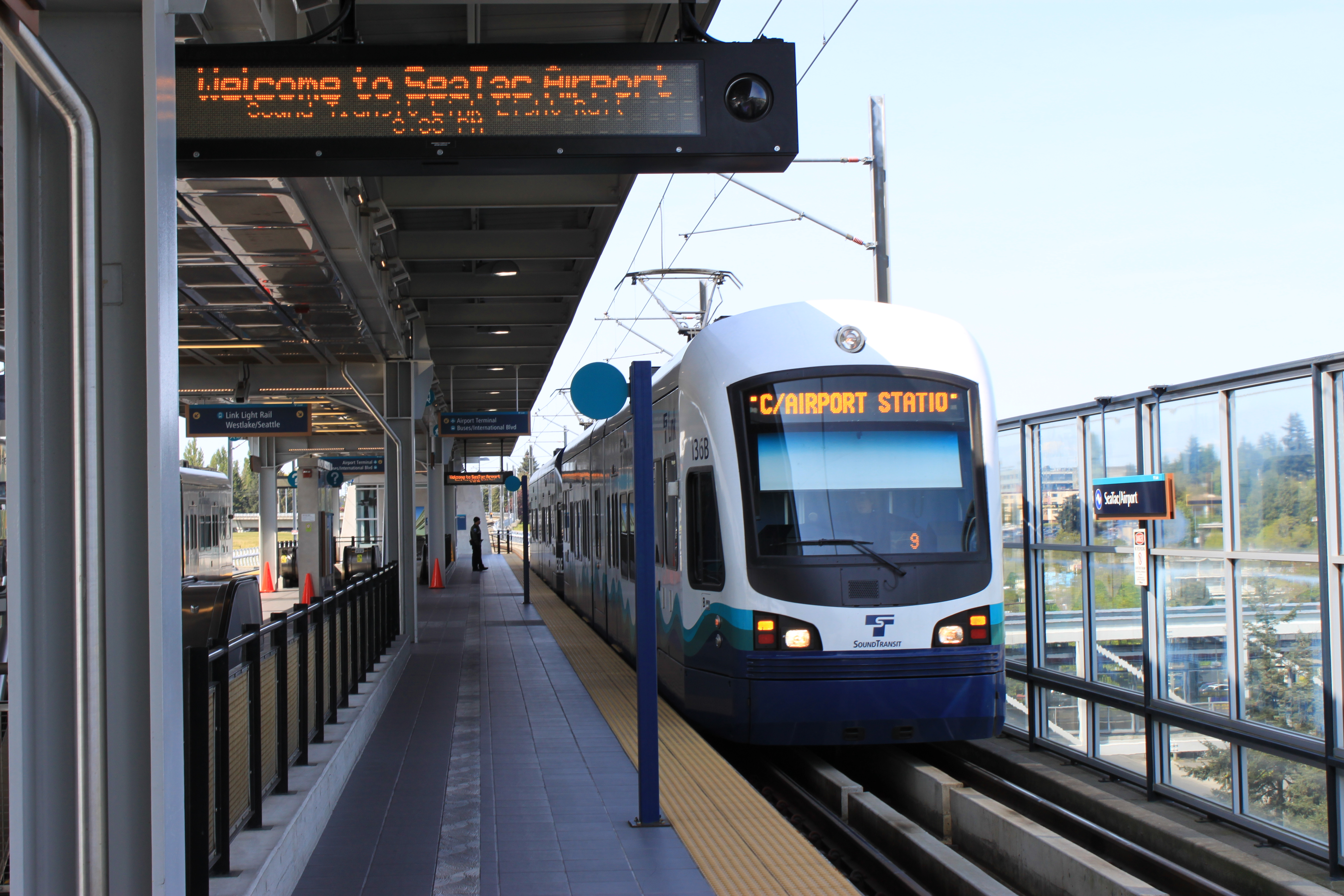 Link car 136 leading a two-car train arriving at SeaTac/Airport Station, in 2015. This photo was taken during the almost seven-year period when all southbound Link service ended at this station. When a trip ends here, at least half of the time the train crosses over to the "lefthand" track (northbound track) as it pulls into the station, and that is what occurred moments before this photo was taken. In such cases, the train operator then walks to the opposite end of the train before starting the next trip, northbound.